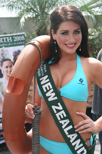 Rachel Crofts - Miss Earth 2008 Press Presentation